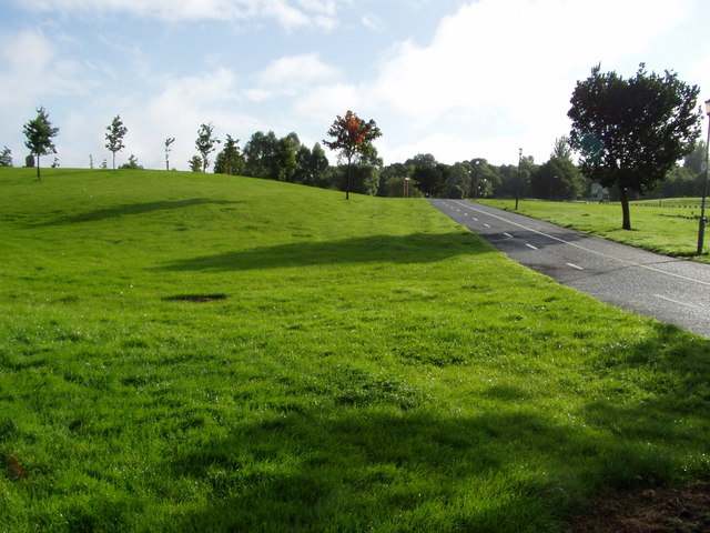 Cycle Path in Craigavon Close to lakes